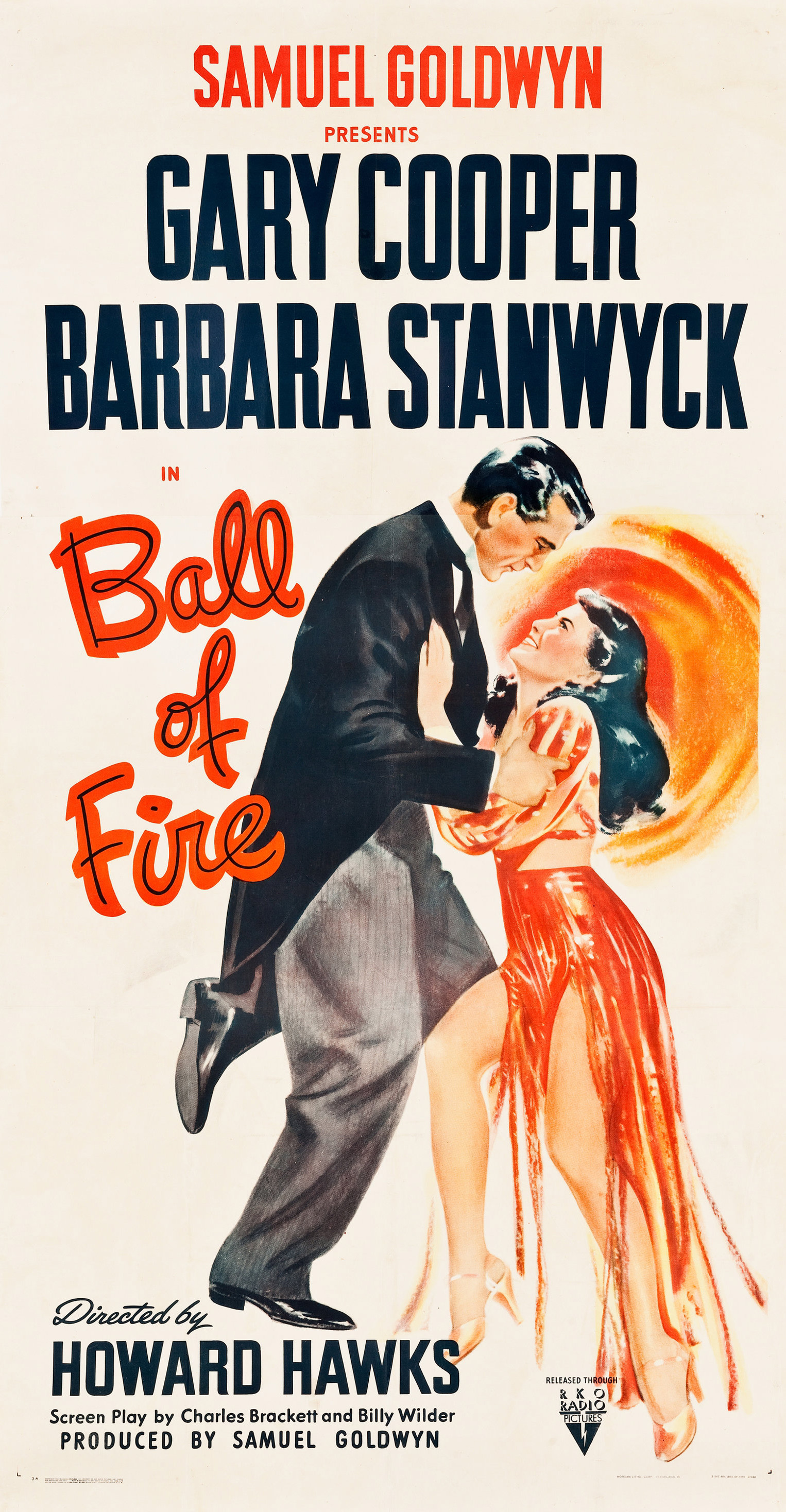 Three-sheet theatrical release poster for the 1941 film Ball of Fire.